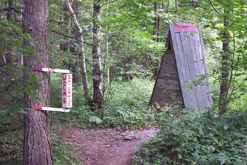 Outhouse, and free/occupied sign (right one to outhouse, and to "bathroom" left one) in tent base in Regetów, Poland.